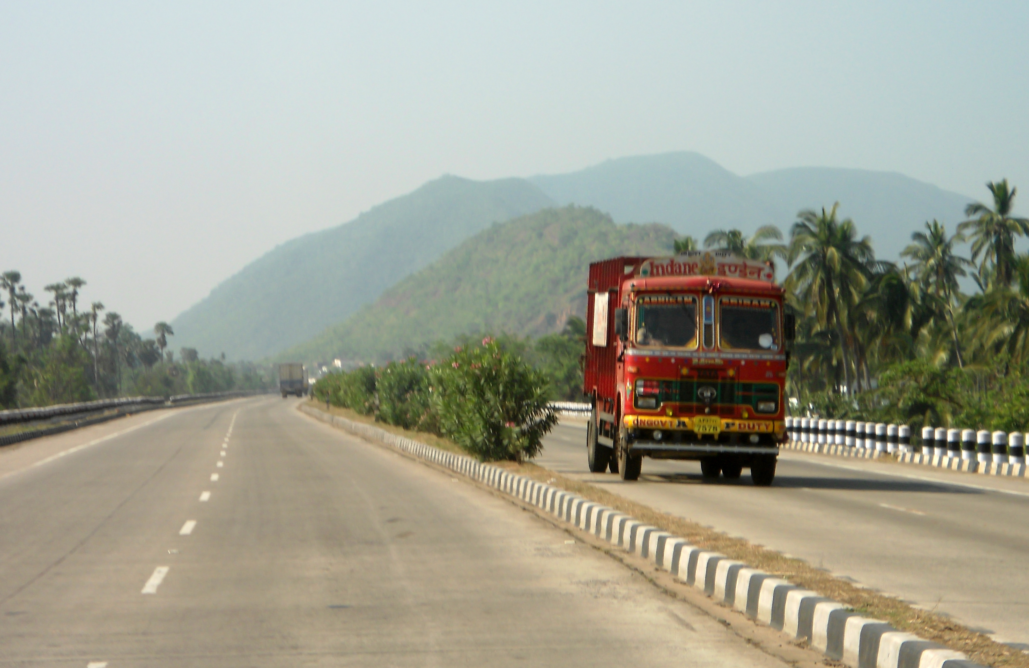 National Highway 5 at Elamanchili in Visakhapatnam district, Andhra Pradesh. NH 5 has been renumbered as NH-16